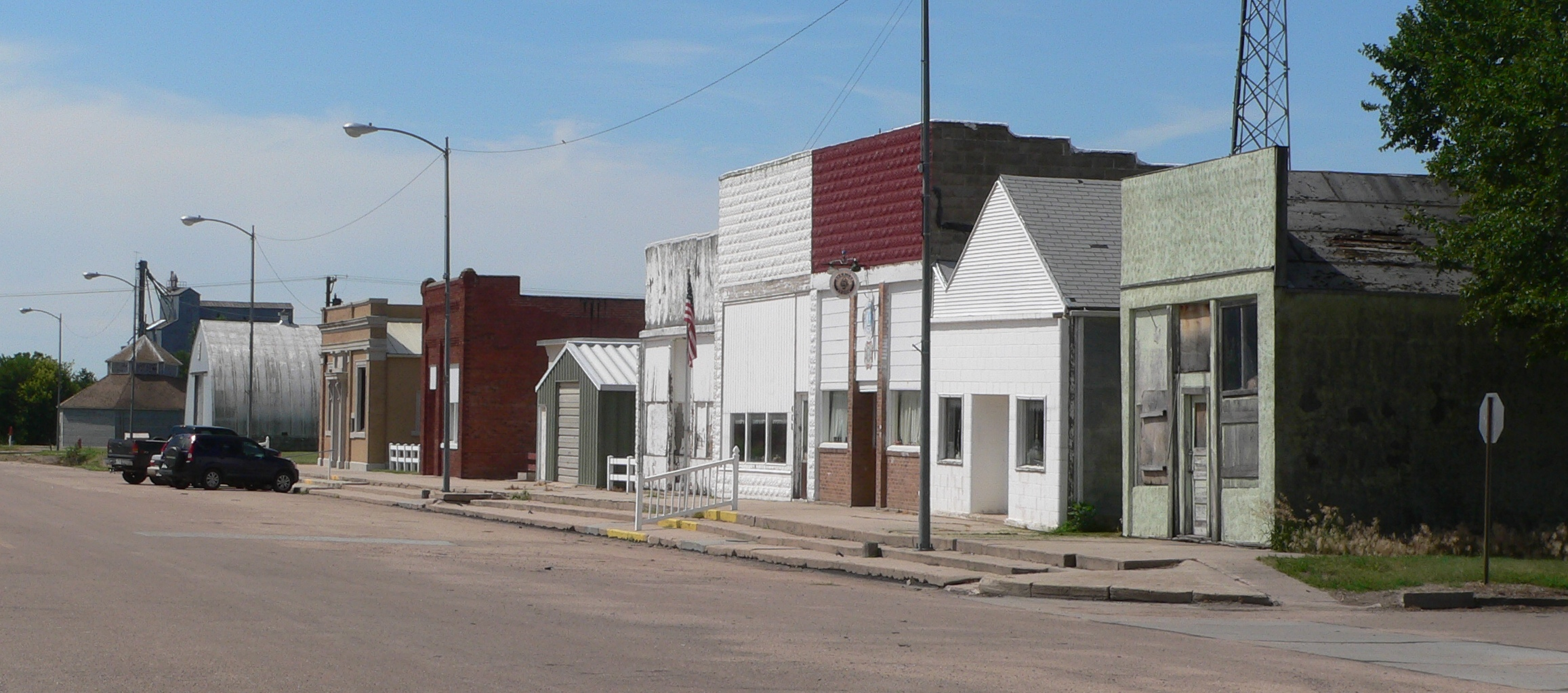 Downtown Bartley, Nebraska: west side of Commercial Street, looking southwest from about Walnut Street.